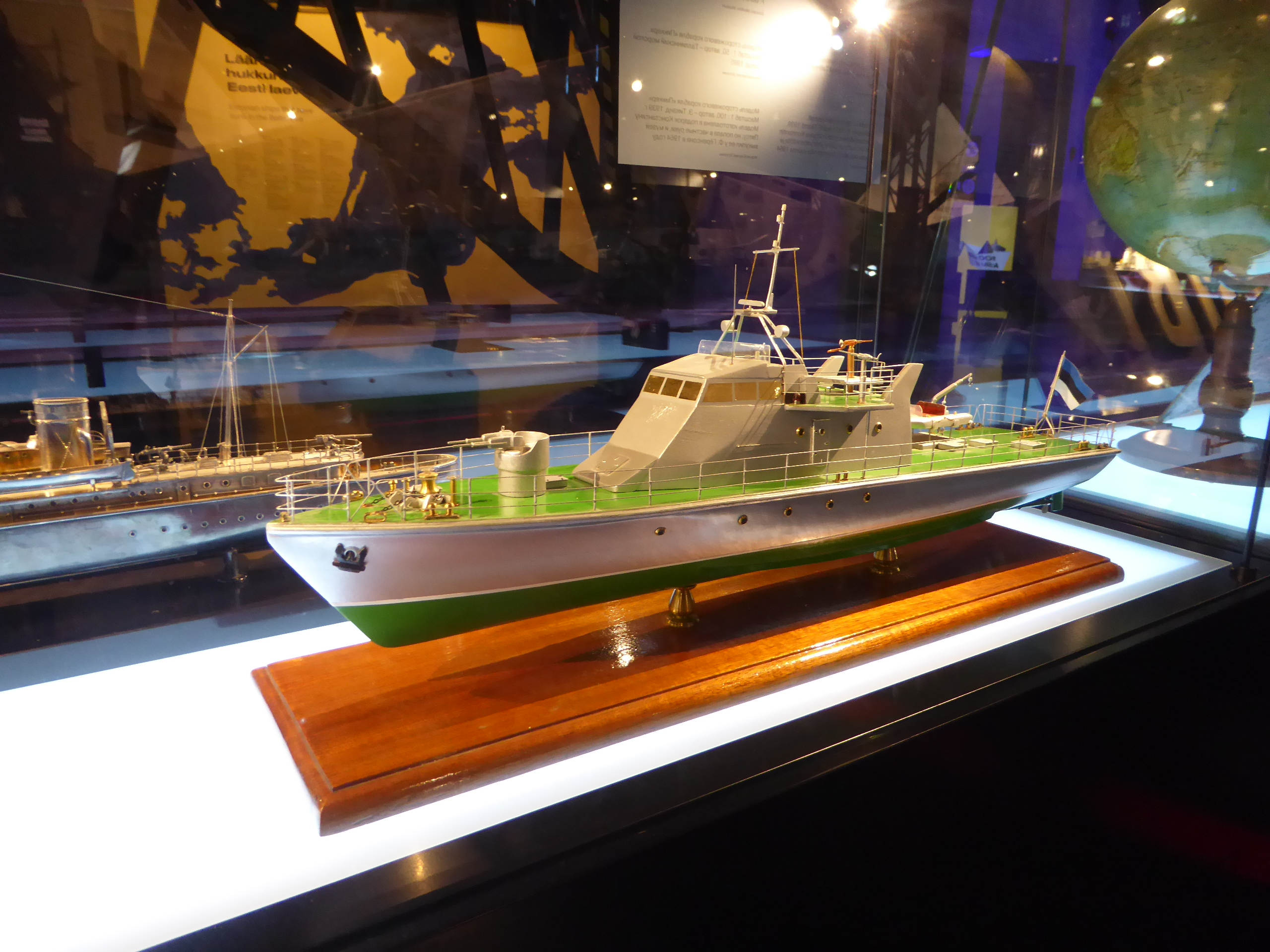 Model of the guard ship PVL-103 Pikker. The model is in scale 1:50 and build the Tallinn Shipyard in 1995. The model was featured in the Estonian Maritime Museum as a part of a special exhibition about 100 years of Estonian ships.